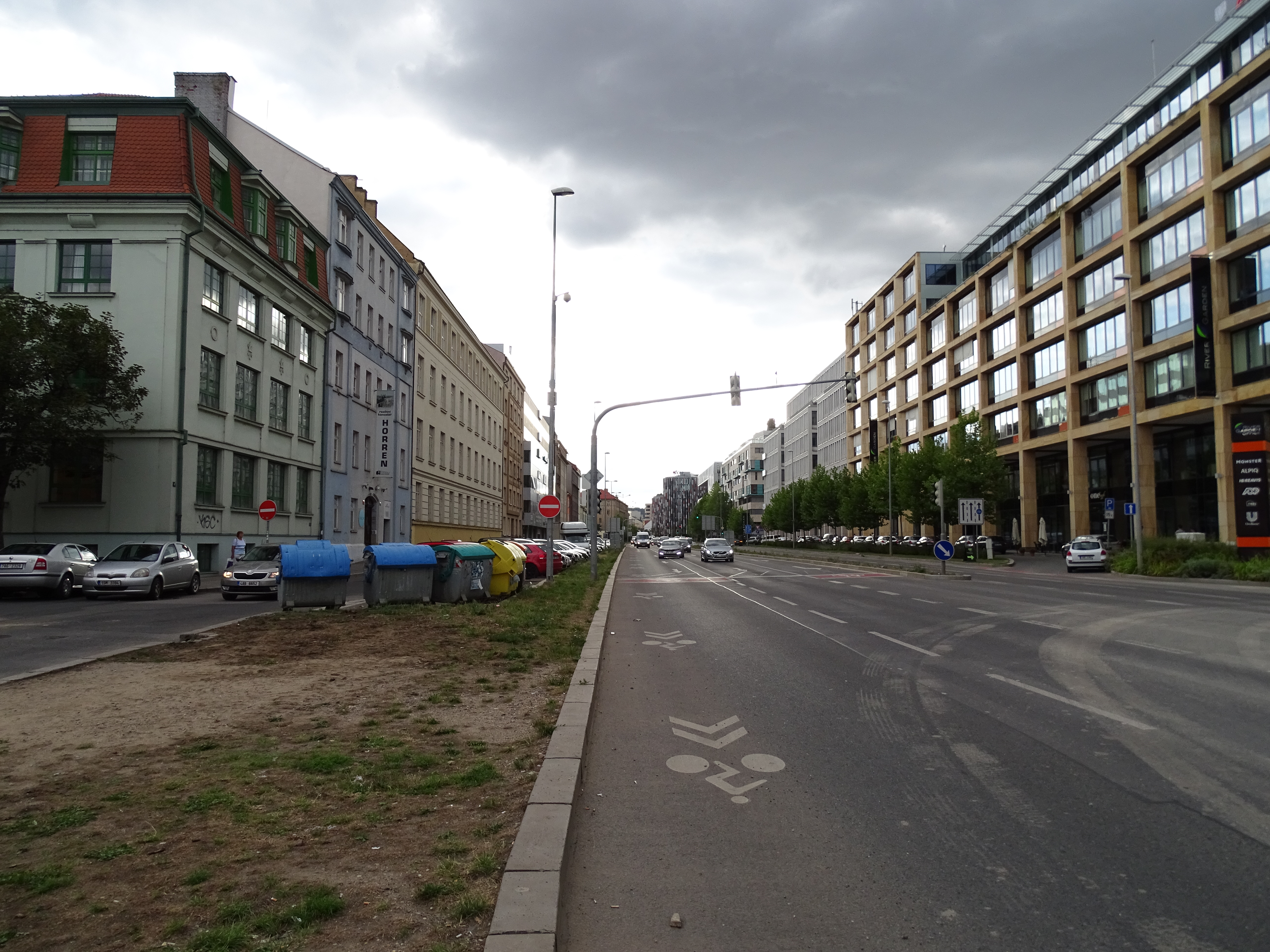 Prague-Karlín, Czech Republic. Rohanské nábřeží and Pobřežní street.